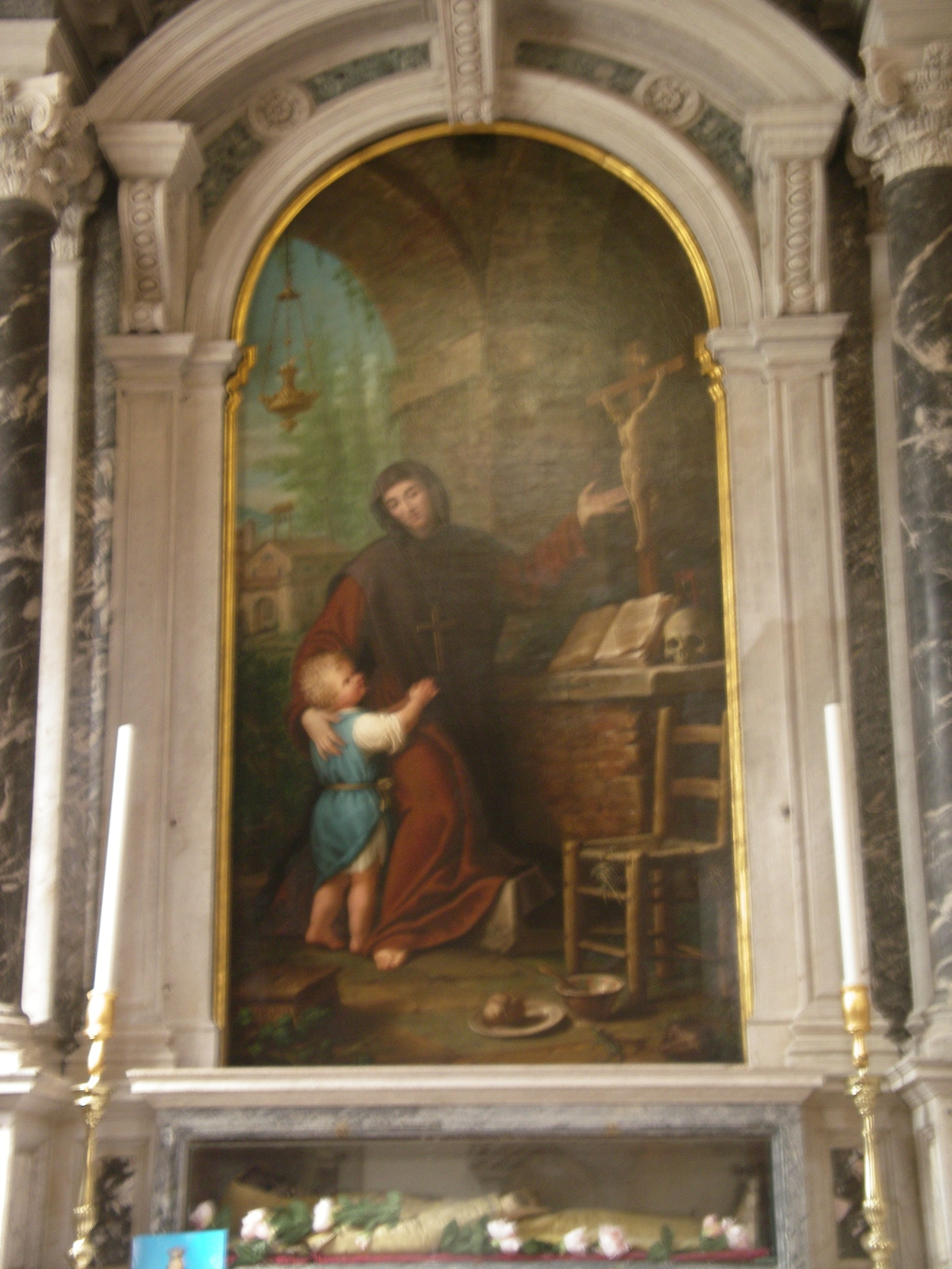 Altar of Saint Marina in Santa Maria Formosa, at Venice, with altarpiece (Marina teaching the child Fortunatus) and the saint's corpse.